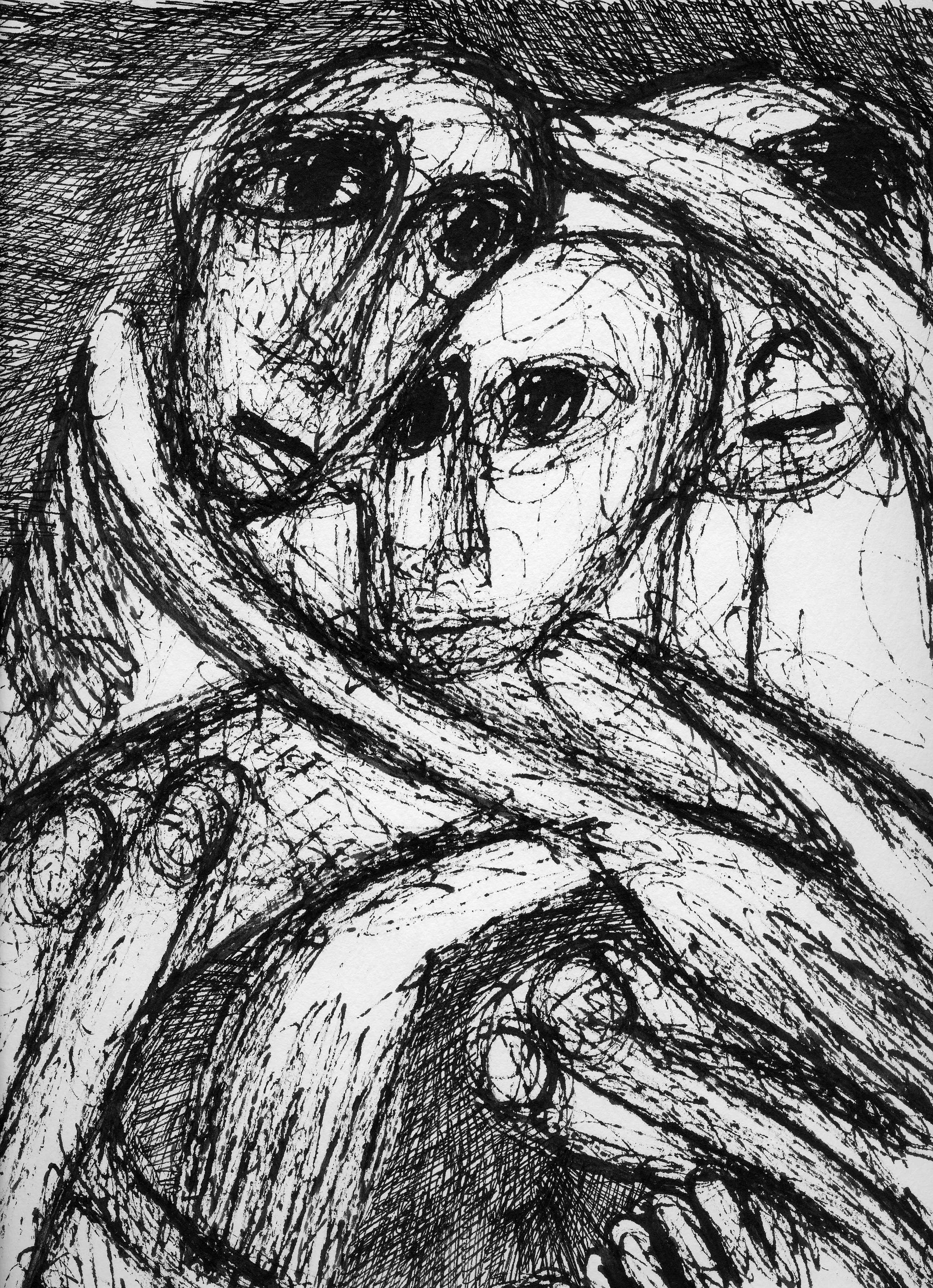 Photo of Drawing No.48, Book 82